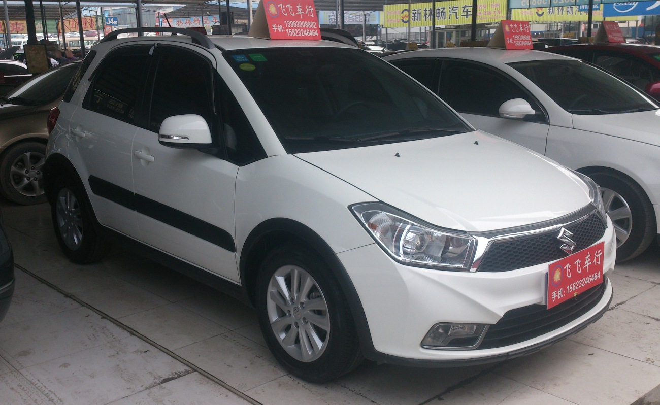 Suzuki SX4 hatch facelift II photographed in Chongqing, China.